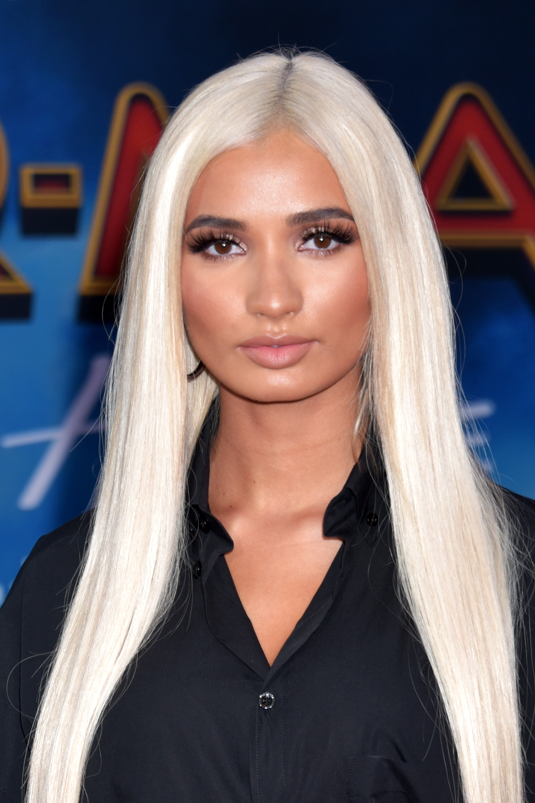 Pia Mia arrives for the premiere of Spider-Man: Far From Home in Hollywood California on June 26, 2019 - Photo by Glenn Francis of